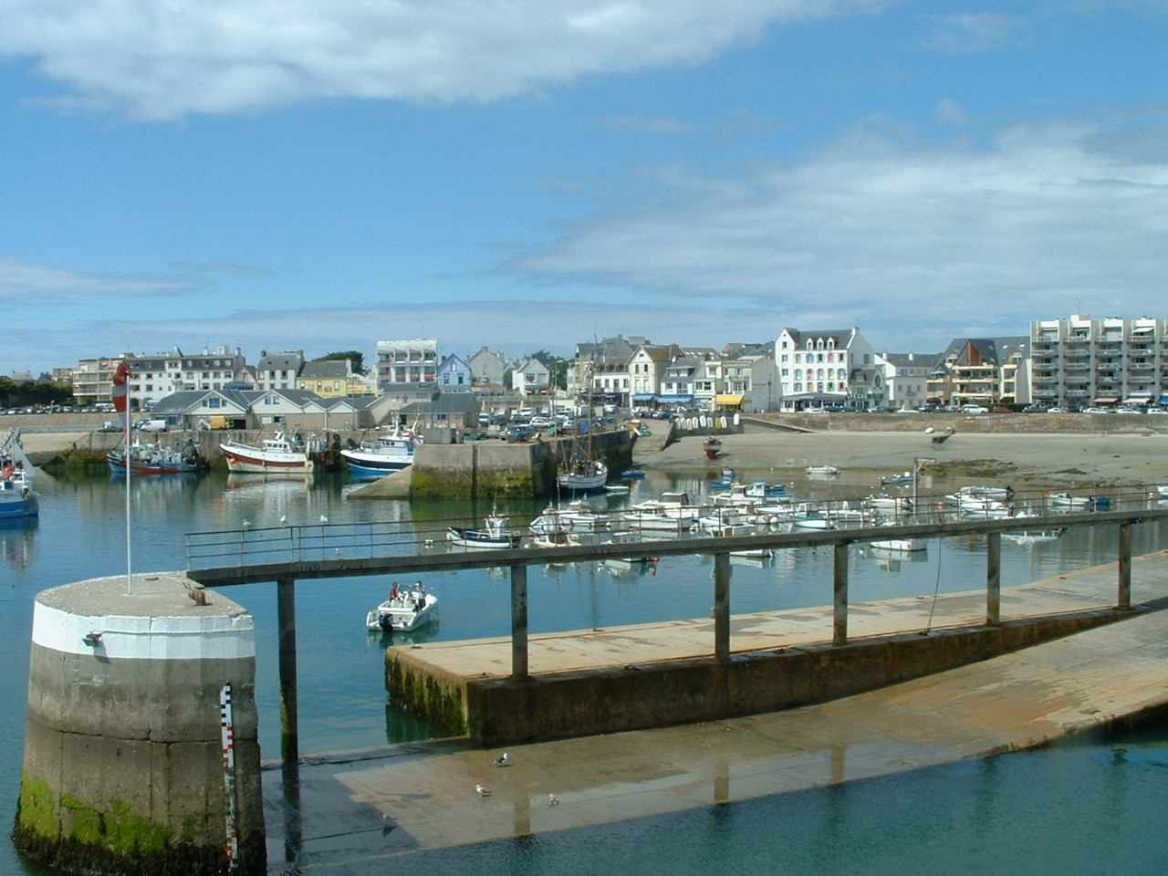 Quiberon -Port Maria